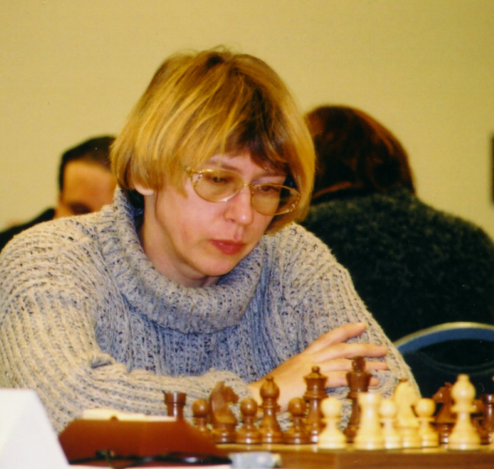 Elena Donaldson at the 2003 U.S. Chess Championships in Seattle, Washington.